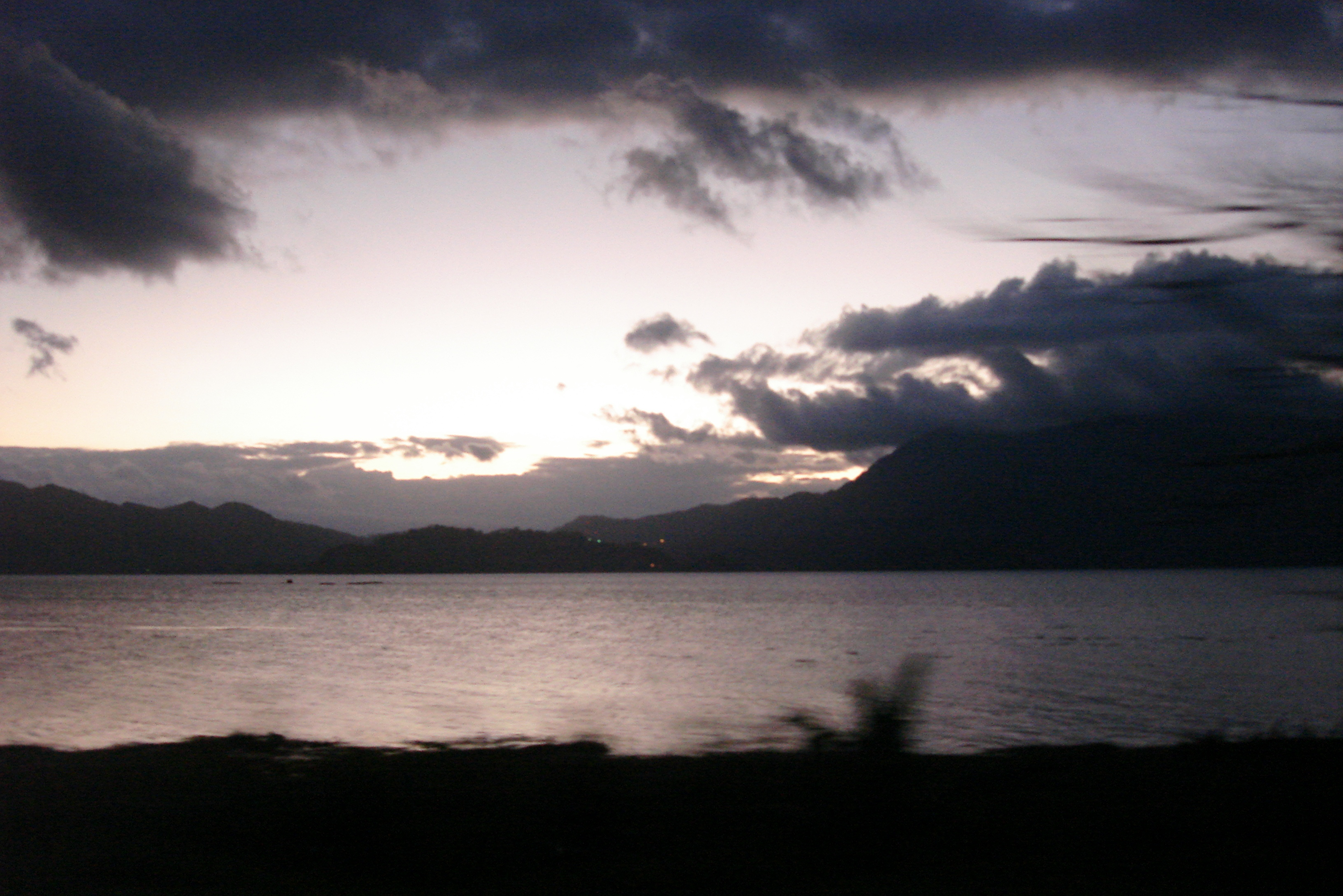 Sunset on Lake Yojoa.